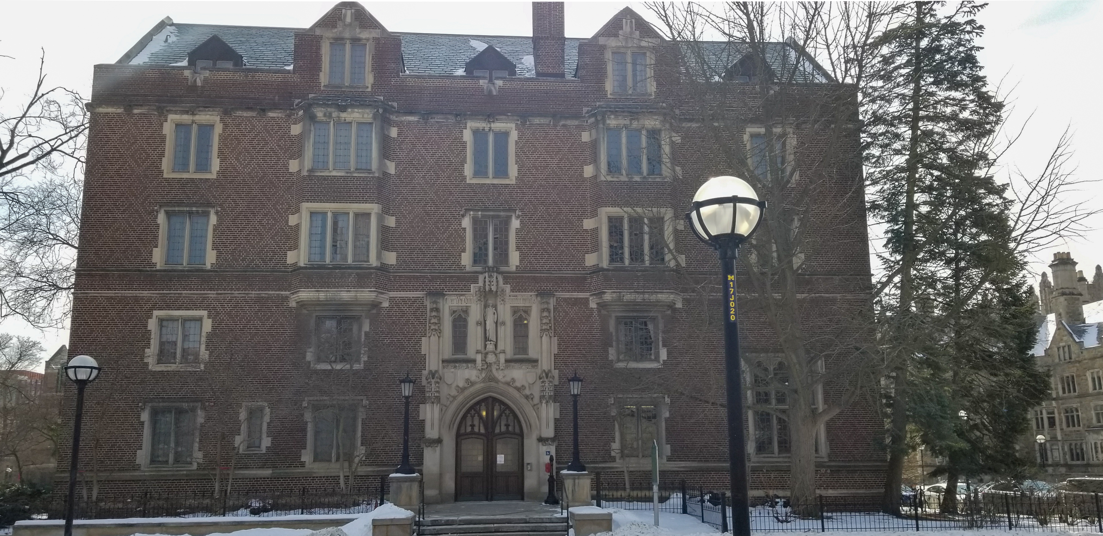 park